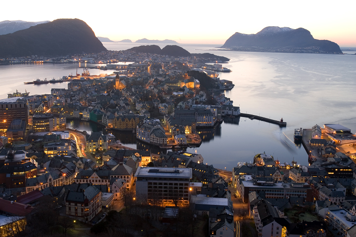 View from Aksla onto Ålesund, minutes before sunset.